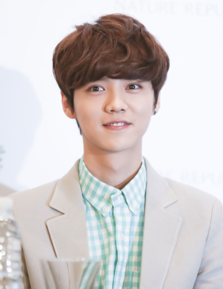 Luhan at Nature Republic's press conference on March 1, 2014.